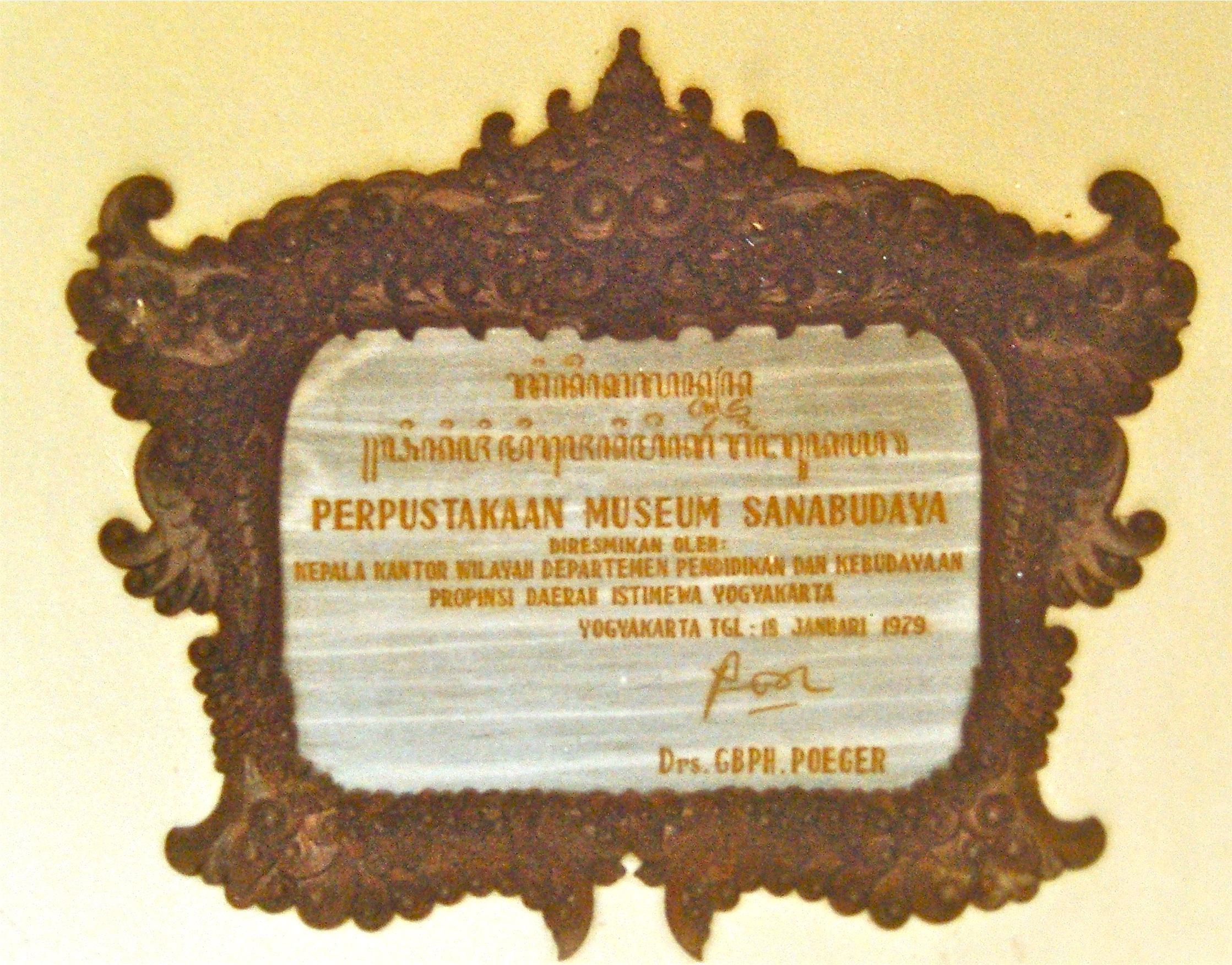 Sonobudoyo Museum library entrance sign from 1979 re-opening, Yogyakarta, Indonesia